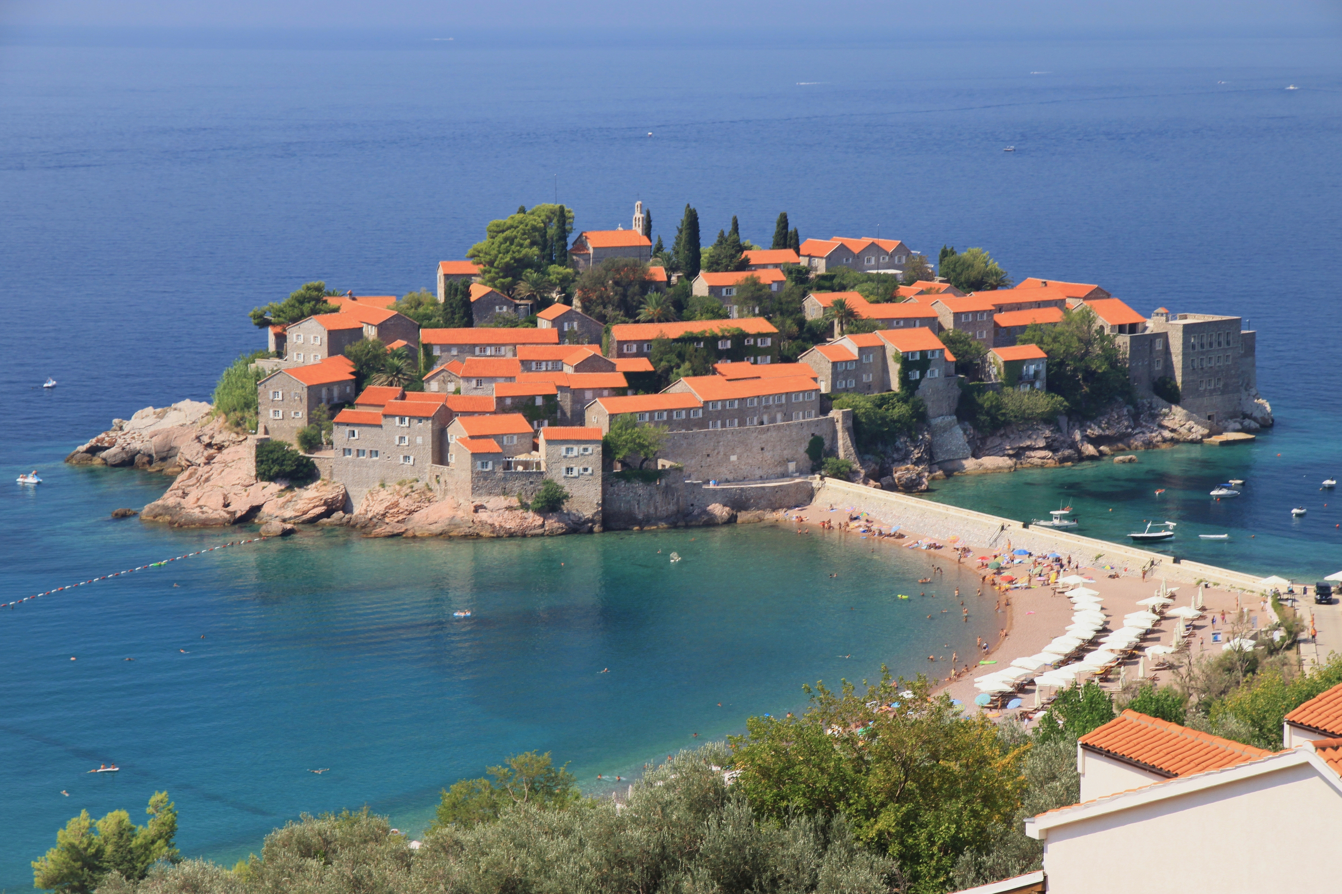 Sveti Stefan, Montenegro.